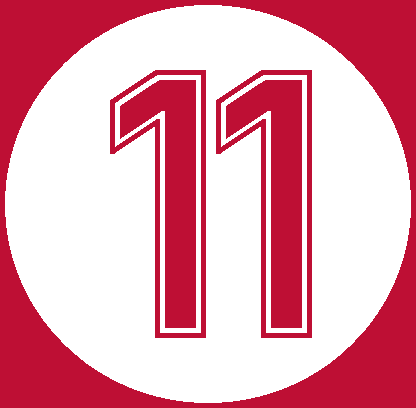 The number "11", retired for Barry Larkin by the Cincinnati Reds.